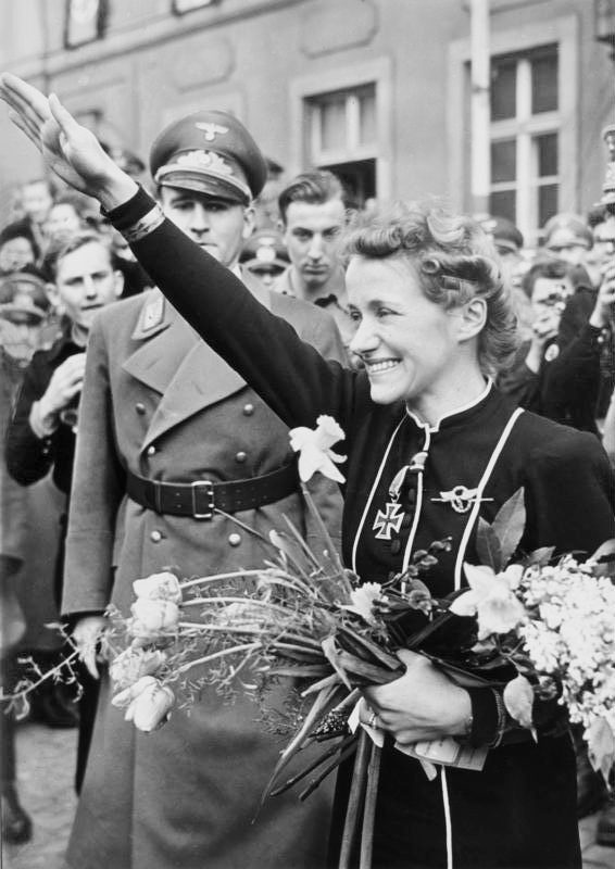 Translation of original image caption: "The only woman in Germany with the Iron Cross visits her hometown. A photo of Captain Hanna Reitsch's reception in her hometown of Hirshberg in the Riesen Mountains of Silesia. Hanna Reitsche is shown thanking the people of the town for her reception. Near her is the Gauleiter of Lower Silesia, Senior-President Hanke."